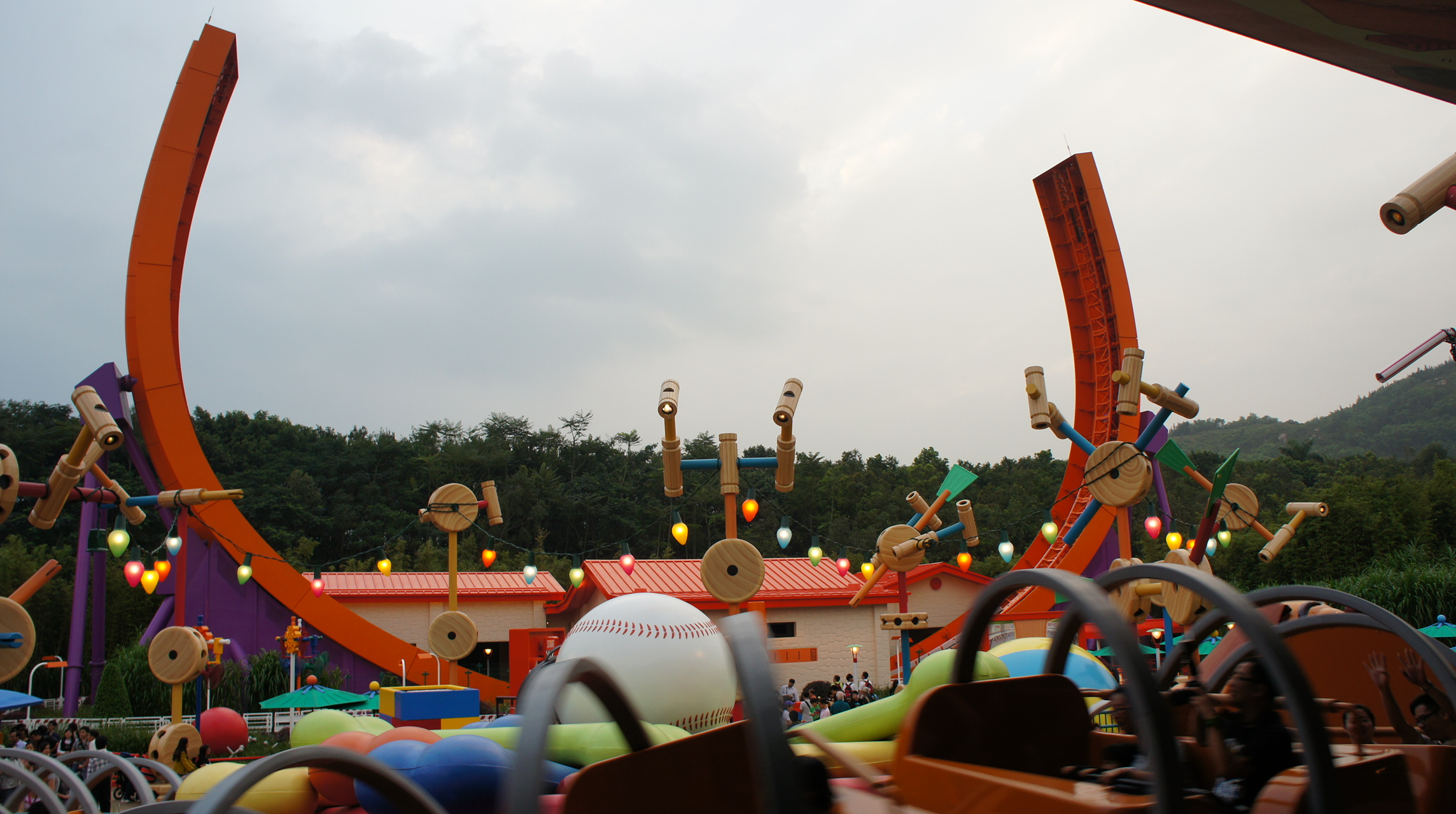 RC Racer